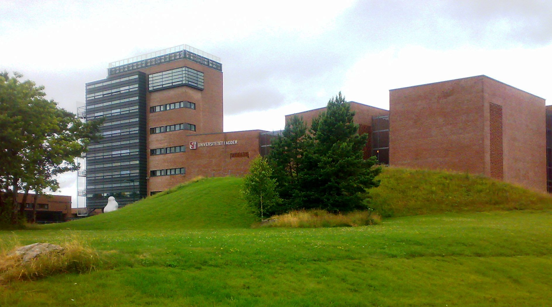 University of Agder campus, Kristiansand, Norway